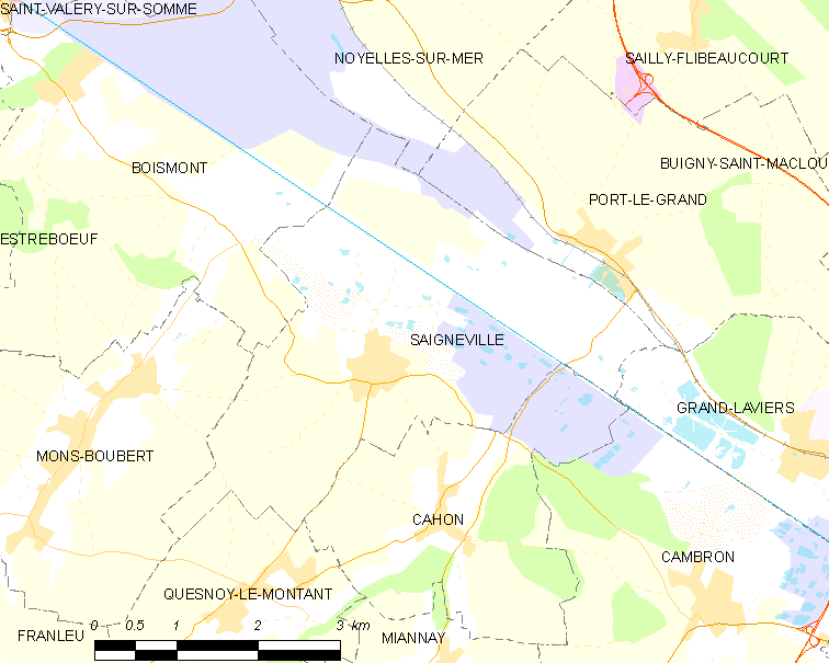 Map of French municipality Saigneville